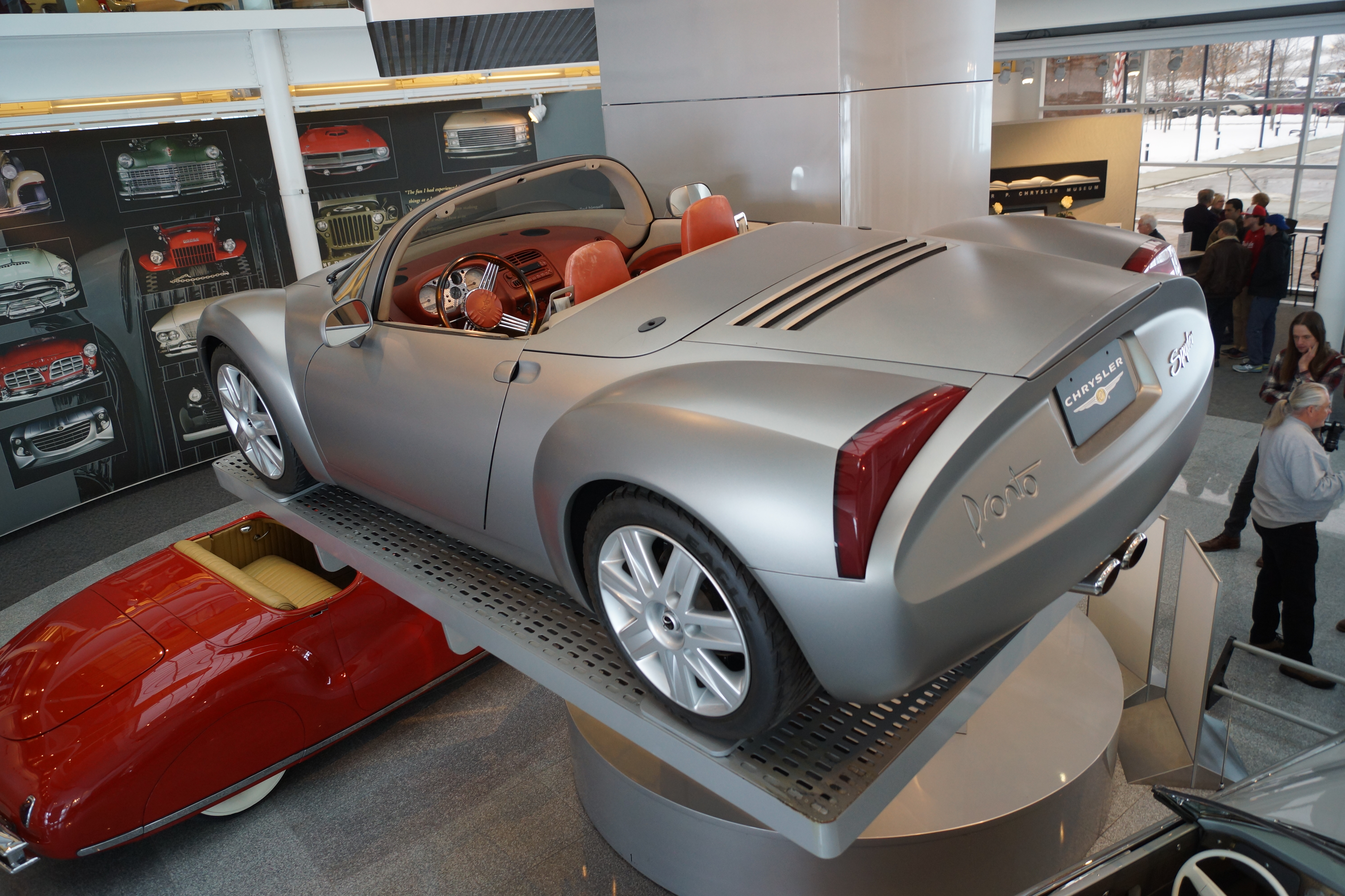 Click here for more car pictures at my Flickr site. Or here for my Car Crazy Tumblr site. Back on November 4th, Hemming's Blog posted an article about the closing of the Walter P. Chrysler Museum . I had missed a couple other opportunities with the WPC Club and others to get into the museum, after it had closed to the public. I did not want to regret missing this last chance to see all of the vehicles before being spread out to other facilities. I trekked from Western Minnesota to Eastern Michigan during Winter Storm Decima. I missed the worst parts of the storm, but still had to endure the aftermath winds, sub zero temperatures and a lake effect snow storm. The trip was difficult, but well worth it. I got to see several Chrysler Corporation concept and show cars that I had only seen pictures of before. There were several clever interactive displays demonstrating various innovations over the years. Since it was the last chance, I duplicated several shots using different camera settings to see what produced better results. I wish I had invested in a strobe light diffuser for all of those indoor pictures. I have not had much experience or success in the past with indoor car images.